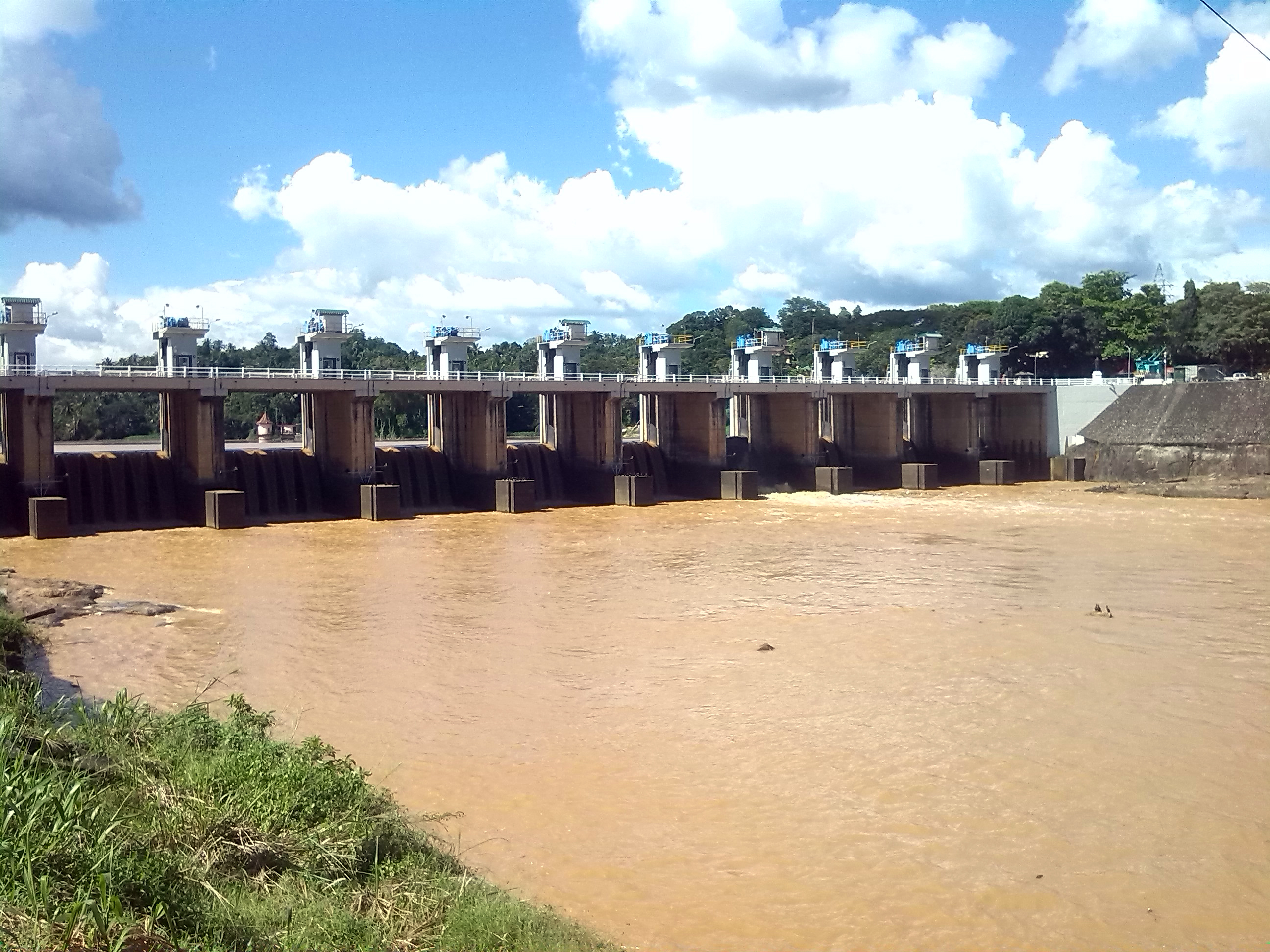 Polgolla Dam with all spillways open.